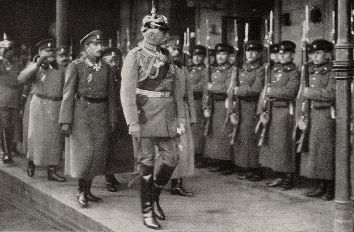 German Field marshall Von Mackensen and Bulgarian crown prince Boris (Boris III), reviewing a Bulgarian regiment. They are also accompanied by the Bulgarian Commander in Chief General Zhekov and the Chief of Staff of the Bulgarian Army General Zhostov.(c. 1916)